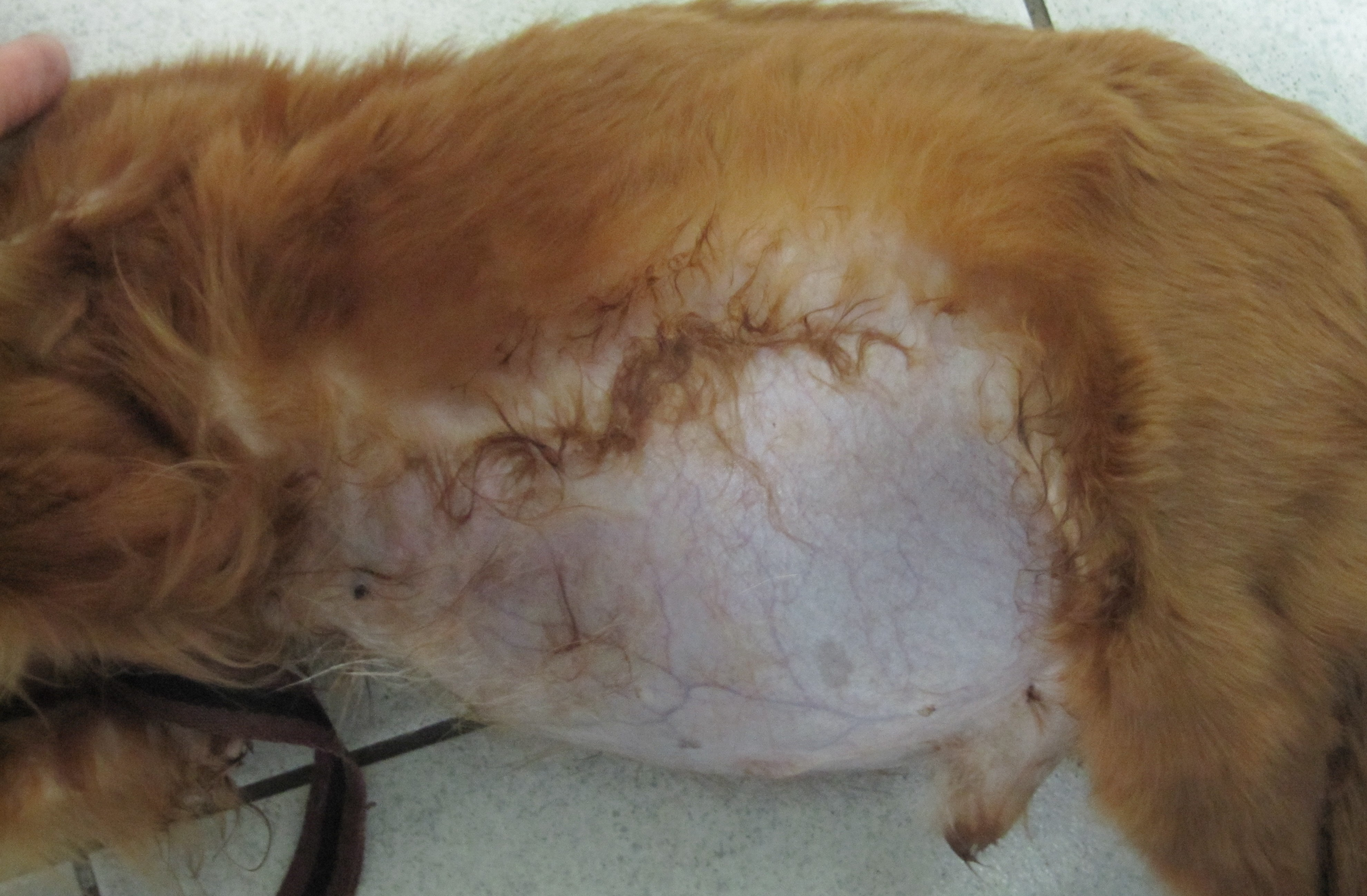 high-grade aszites in a Chevalier King Charles Spaniel due to heart failure